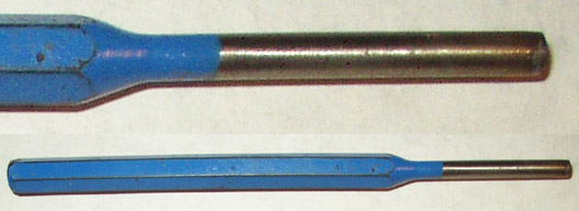 Blue handled pin-punch tool